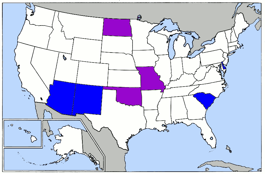 Map of the United States showing the states holding caucus and primary elections on Mini-Tuesday of the 2004 U.S. presidential primary cycle. Key: Purple: states holding elections for both parties (19) Blue: Democratic Party (United States)en-only elections (3) This raster graphics image was created with GIMP. File:Mini-Tuesday 2004.svg is a vector version of this file. It should be used in place of this raster image when superior. File:Mini-Tuesday 2004.png File:Mini-Tuesday 2004.svg For more information about vector graphics, read about Commons transition to SVG. There is also information about MediaWiki's support of SVG images.